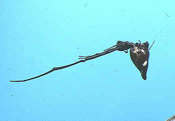 female Argyrodes xiphias from Okinawa.